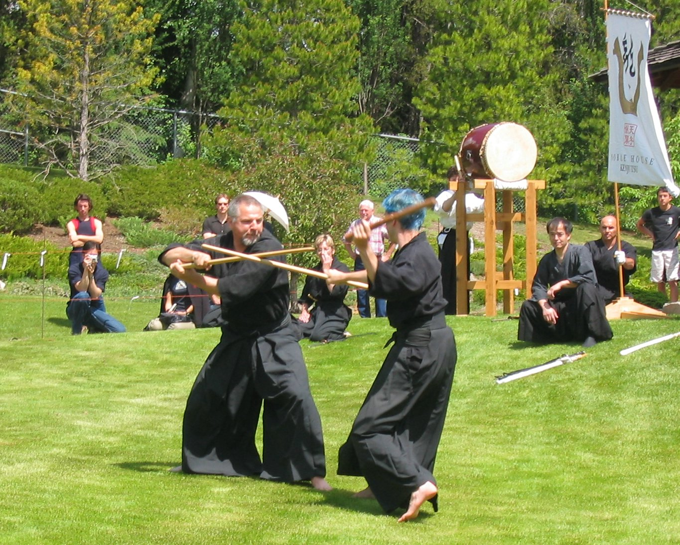 Kenjutsu at the Japanese Garden in Devonian Botanical Garden.